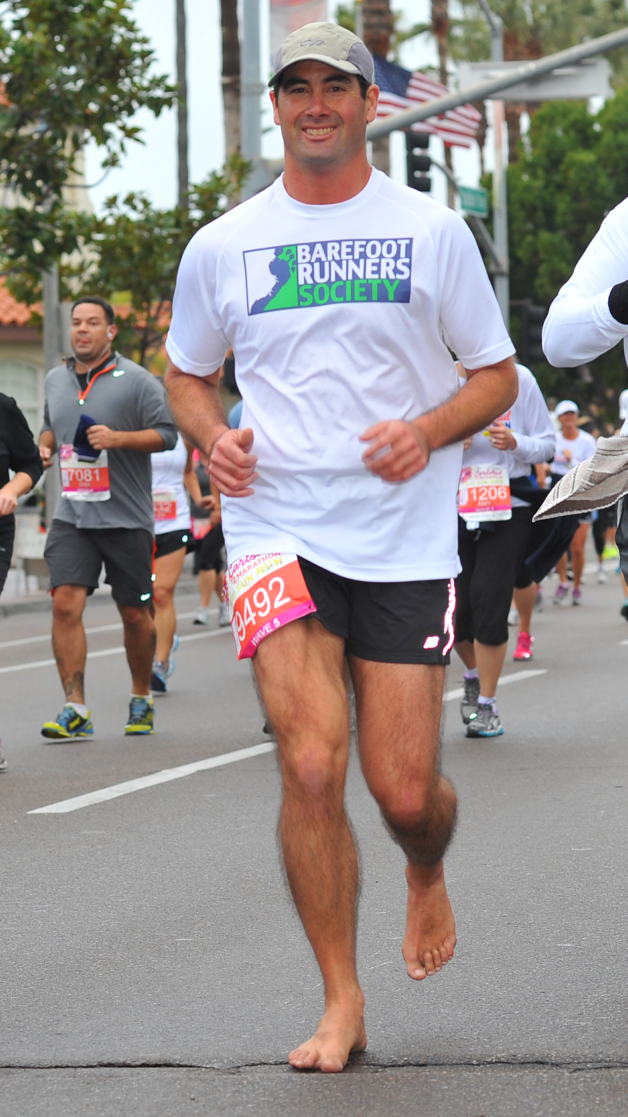 A man runs barefoot for the half-marathon. KFH_6094 sharp_cr